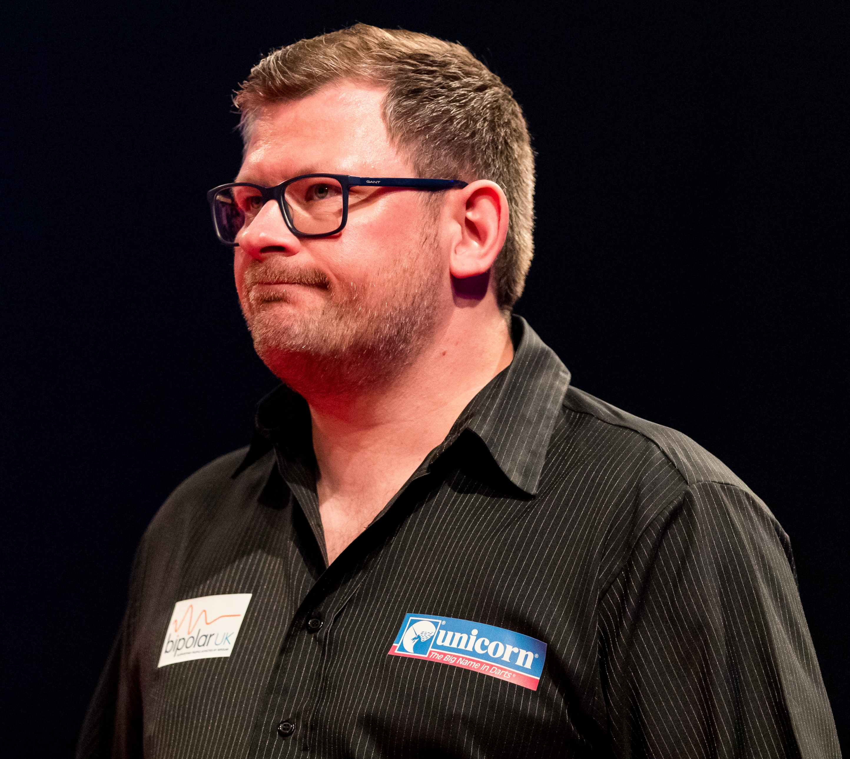 James Wade 6:2 Bradley Brooks during PDC Europe Darts Matchplay at Maimarkthalle, Mannheim, Baden-Württemberg, Germany on 2019-09-07, Photo: Sven Mandel